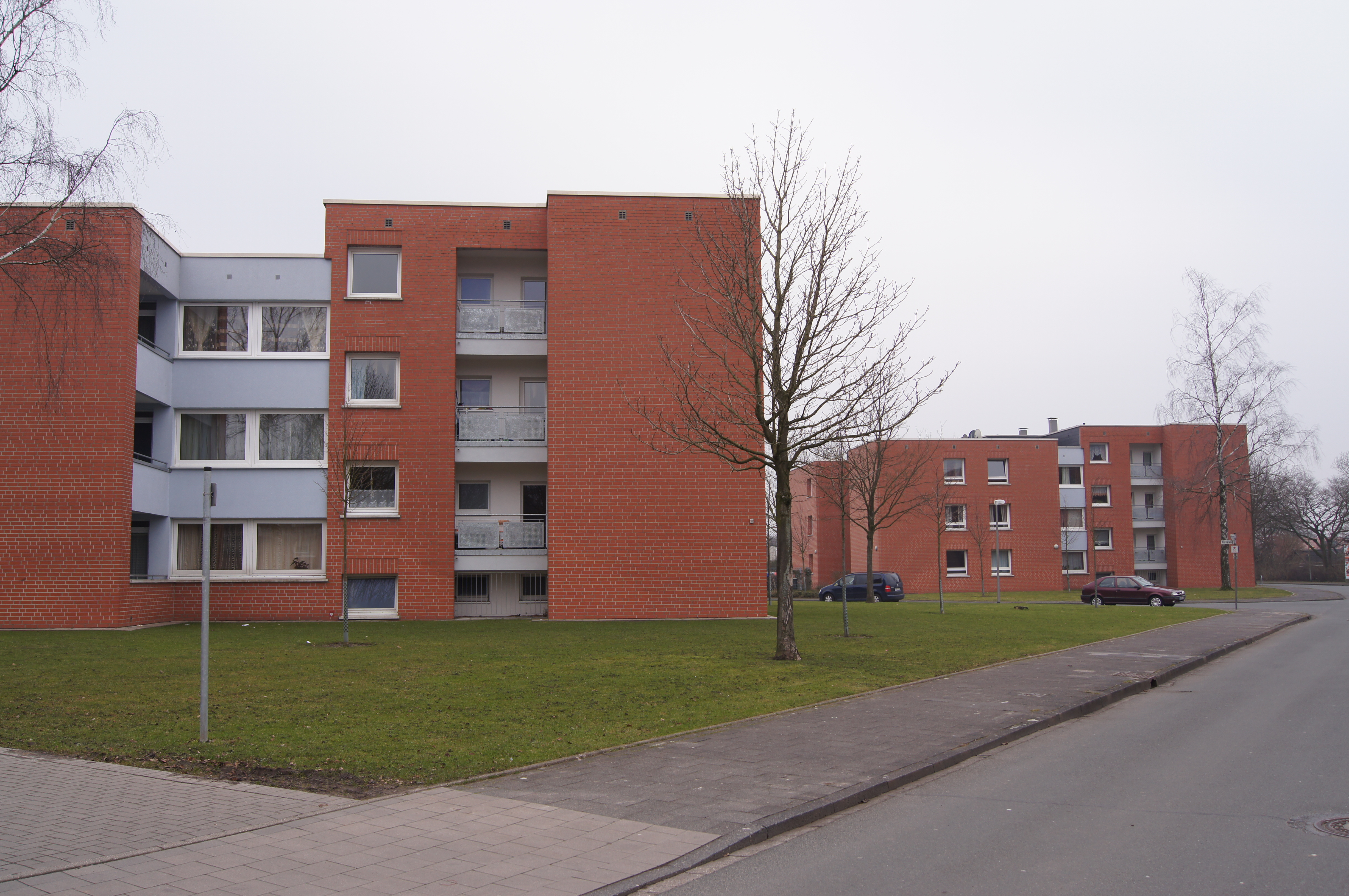 Excample of the condensed developement and population in the south part of the Geistviertel in Münster (Westphalia).